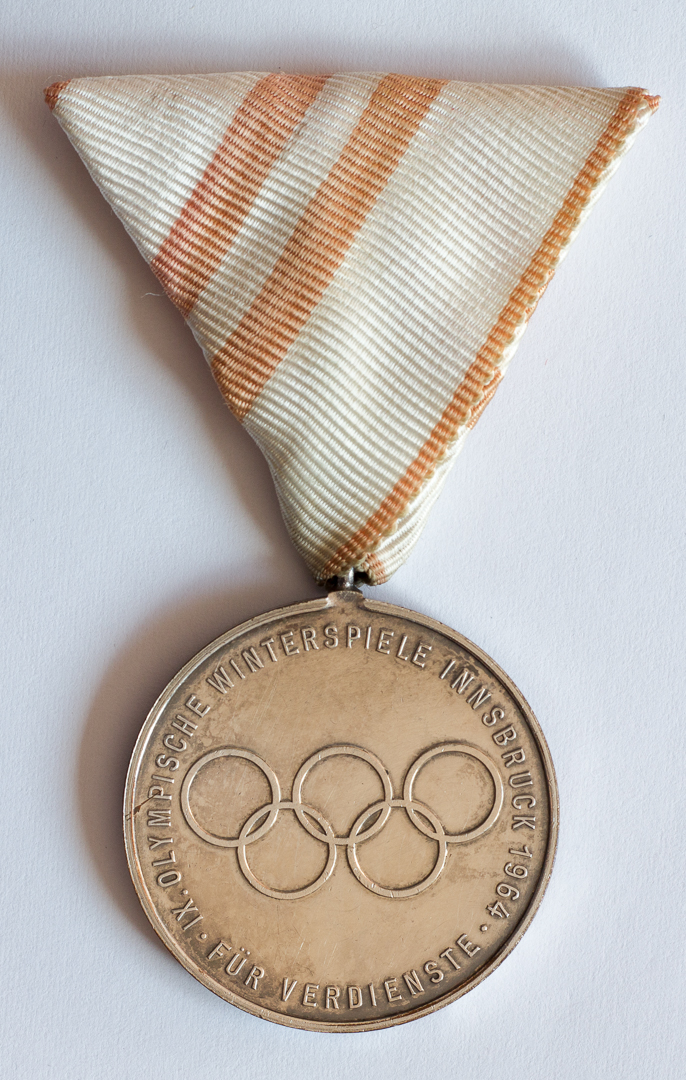 Austrian Olympic Medal (1964)